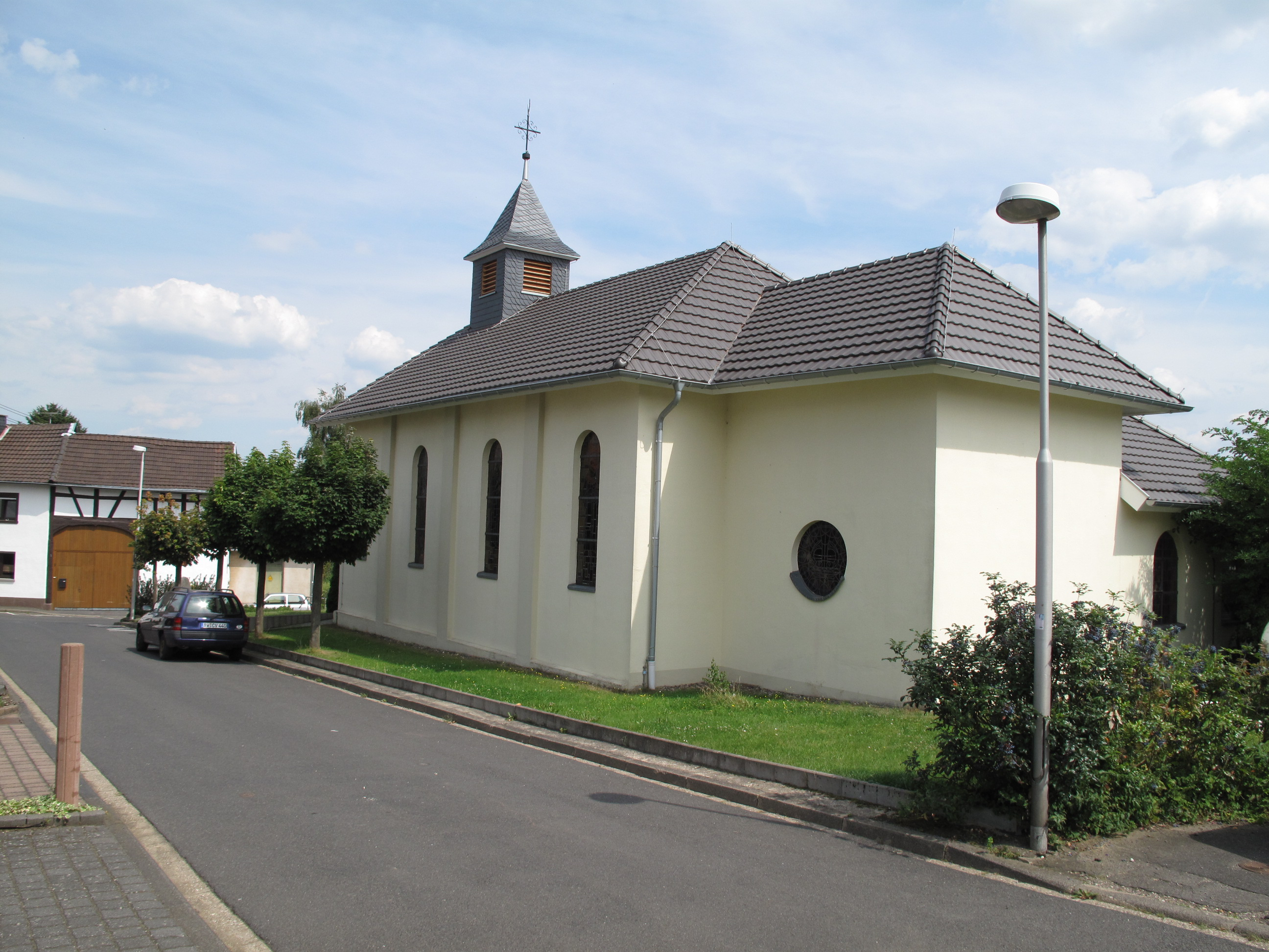 Bölingen, chapel